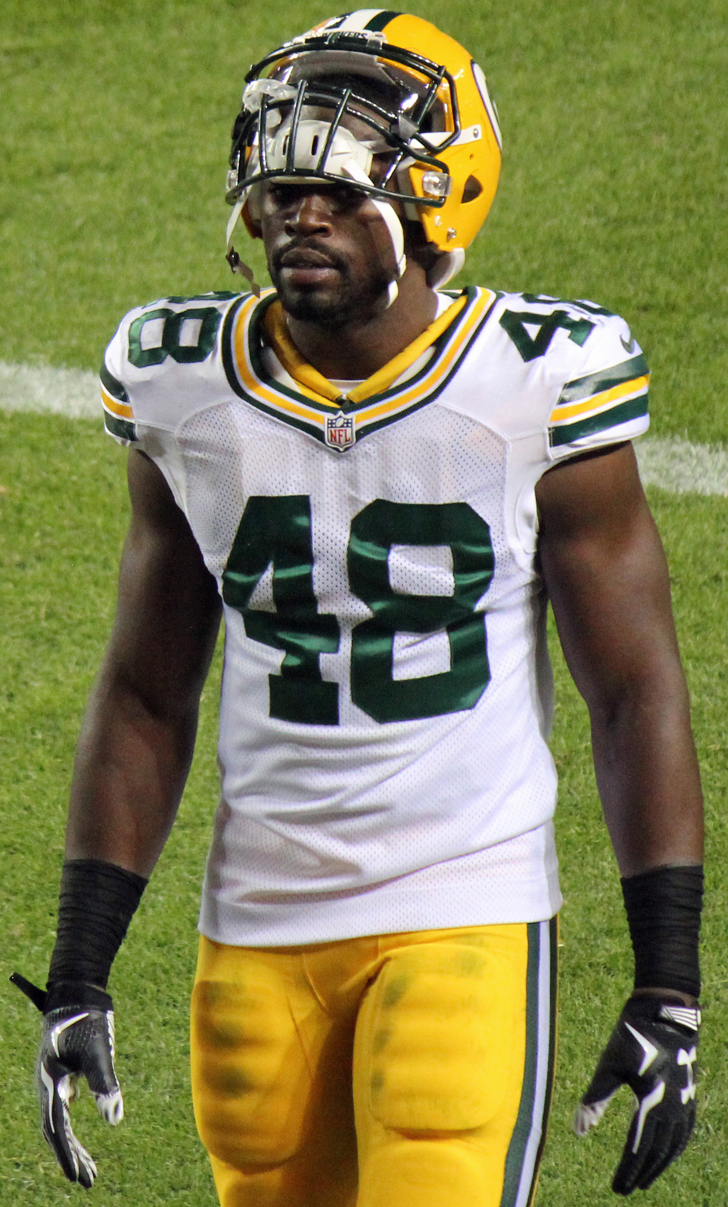 Joe Thomas, a player on the National Football League.